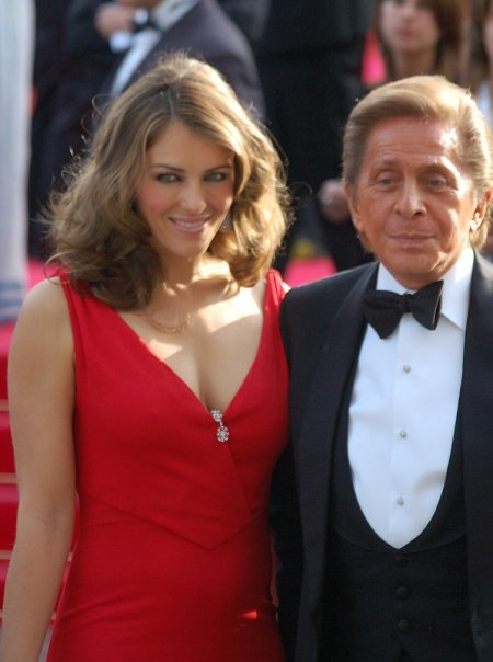 Elizabeth Hurley and Valentino Garavani at the Cannes Film Festival.